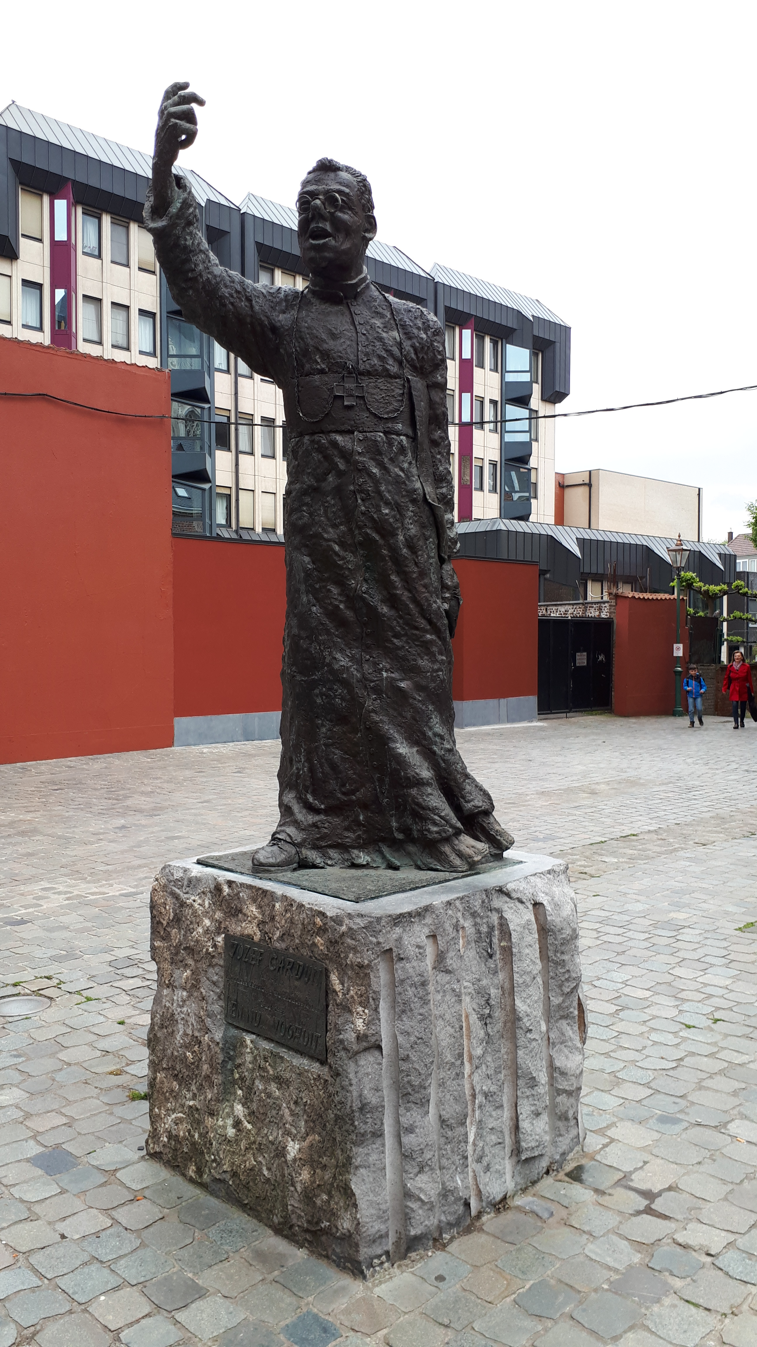 Statue of Joseph Cardijn in Halle"En nu vooruit"